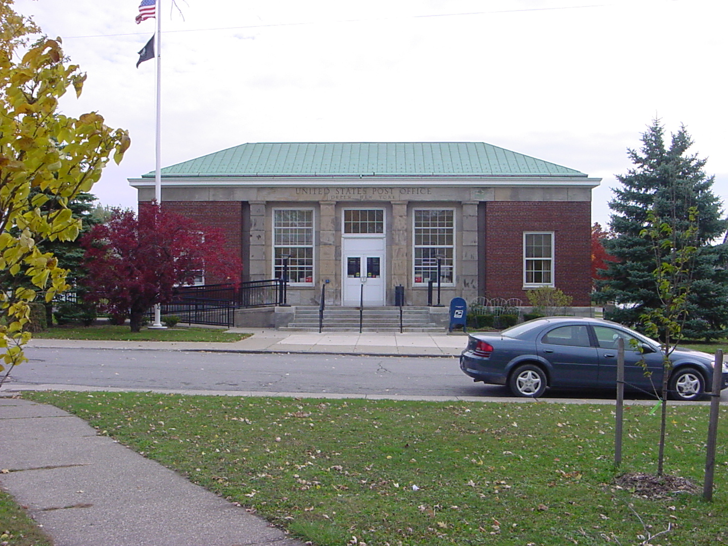 Photo of the United States Post Office at Depew that is on the National Register of Historic Places